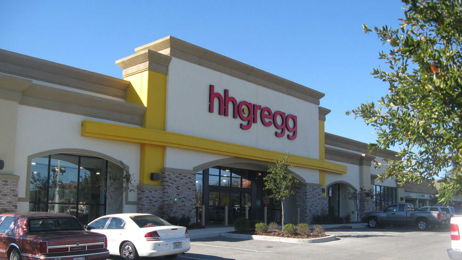 hhgregg store in Gainesville, Florida